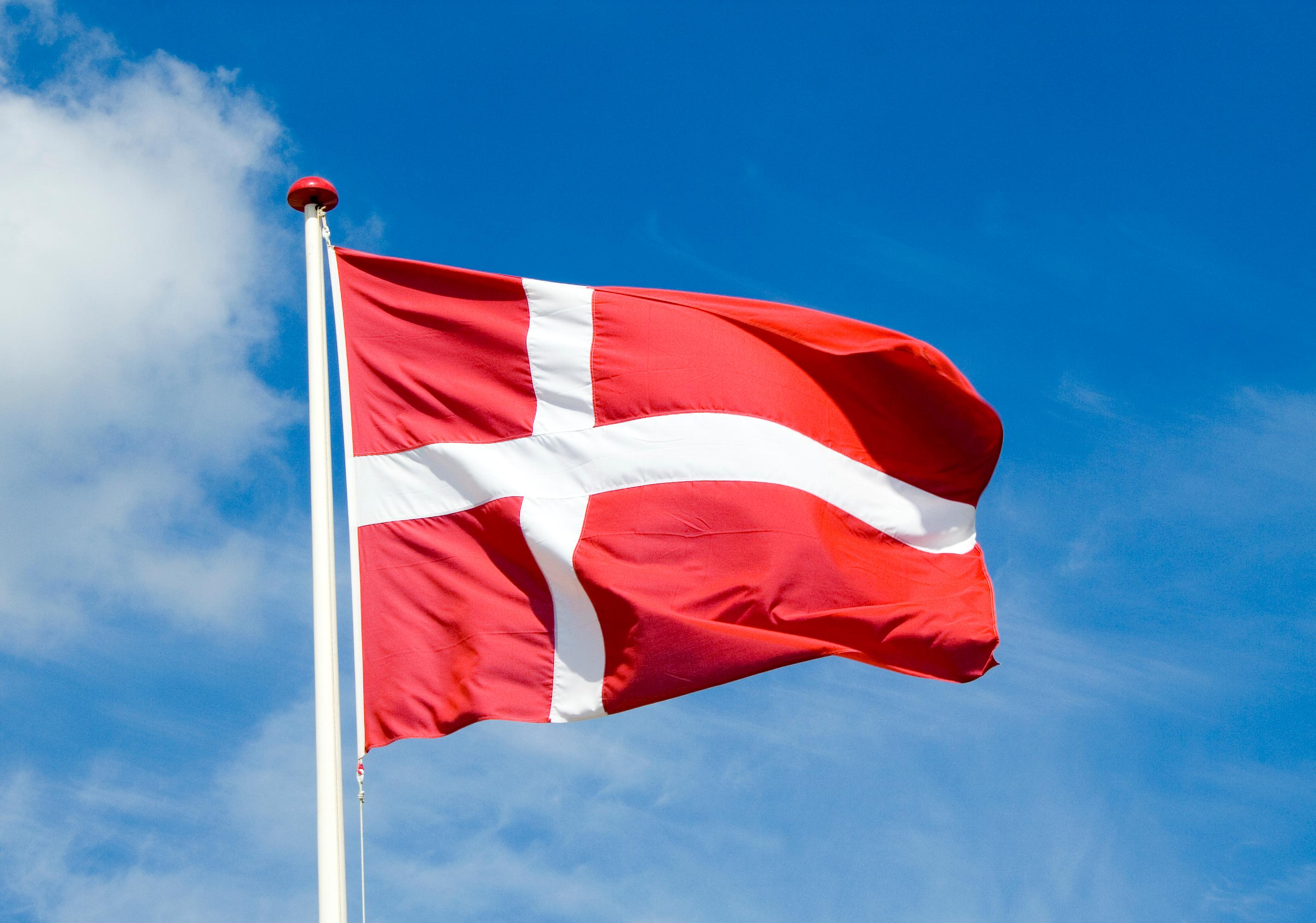 The Flag of Denmark